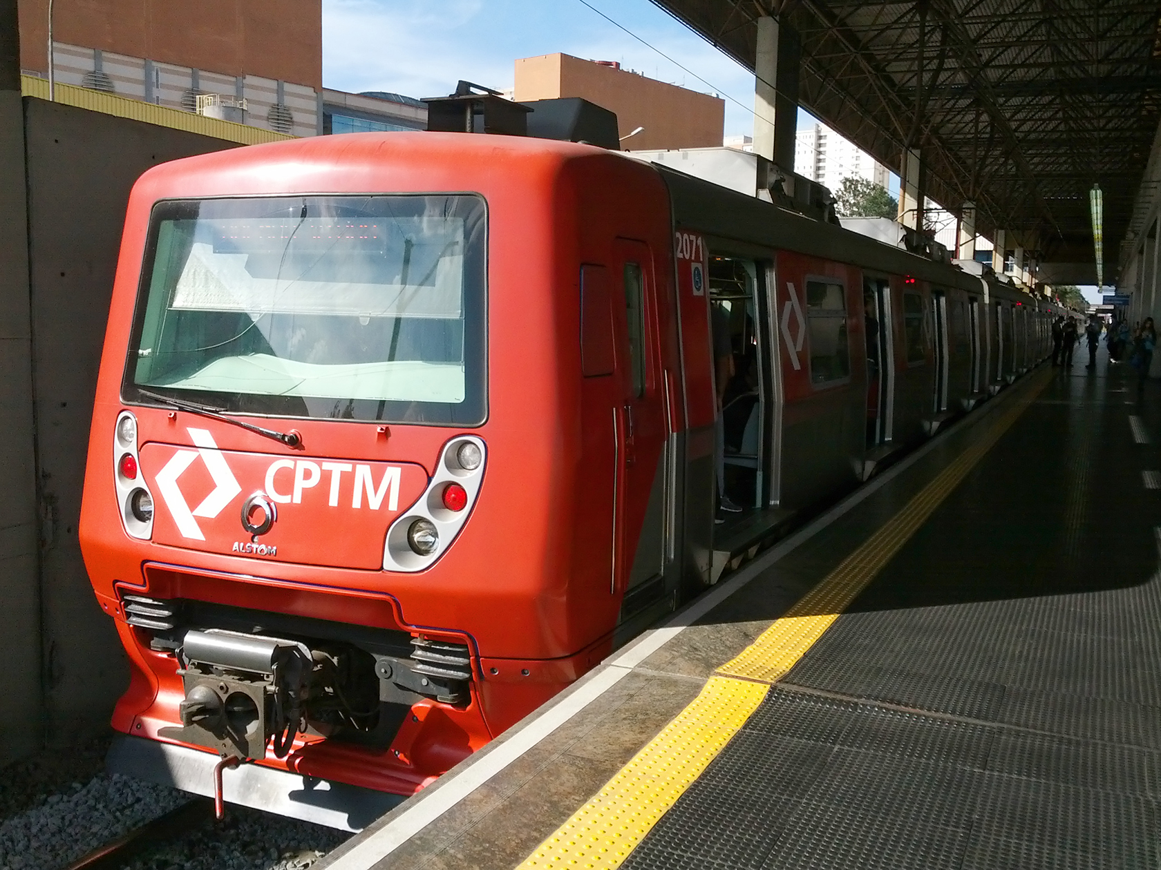 CPTM 2070 Series train at Tatuapé Station in São Paulo, Brazil.